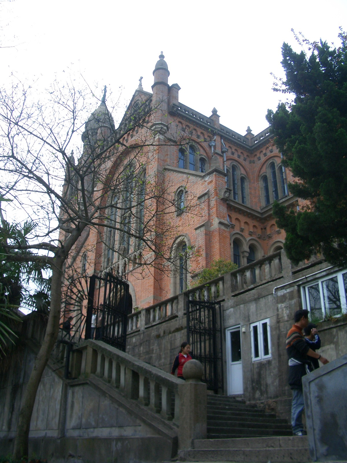 The stairs, the gate, all leading up to the front of She Shan Basilica.